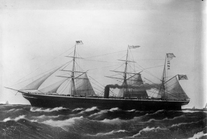 Data on Steamer Bremen: built at Caird & Co., Greenock, UK 2674 GRT, 2756 tdw ength 333 ft, width 39 ft compound engines, 1310 HP, 11 kn, three masts with auxiliary sails, Passengers: 60 I, 110 , 400 TwD. Crew 102 launched Feb. 1, 1858 Wrecked October 16, 1882 at South Farralones, California.